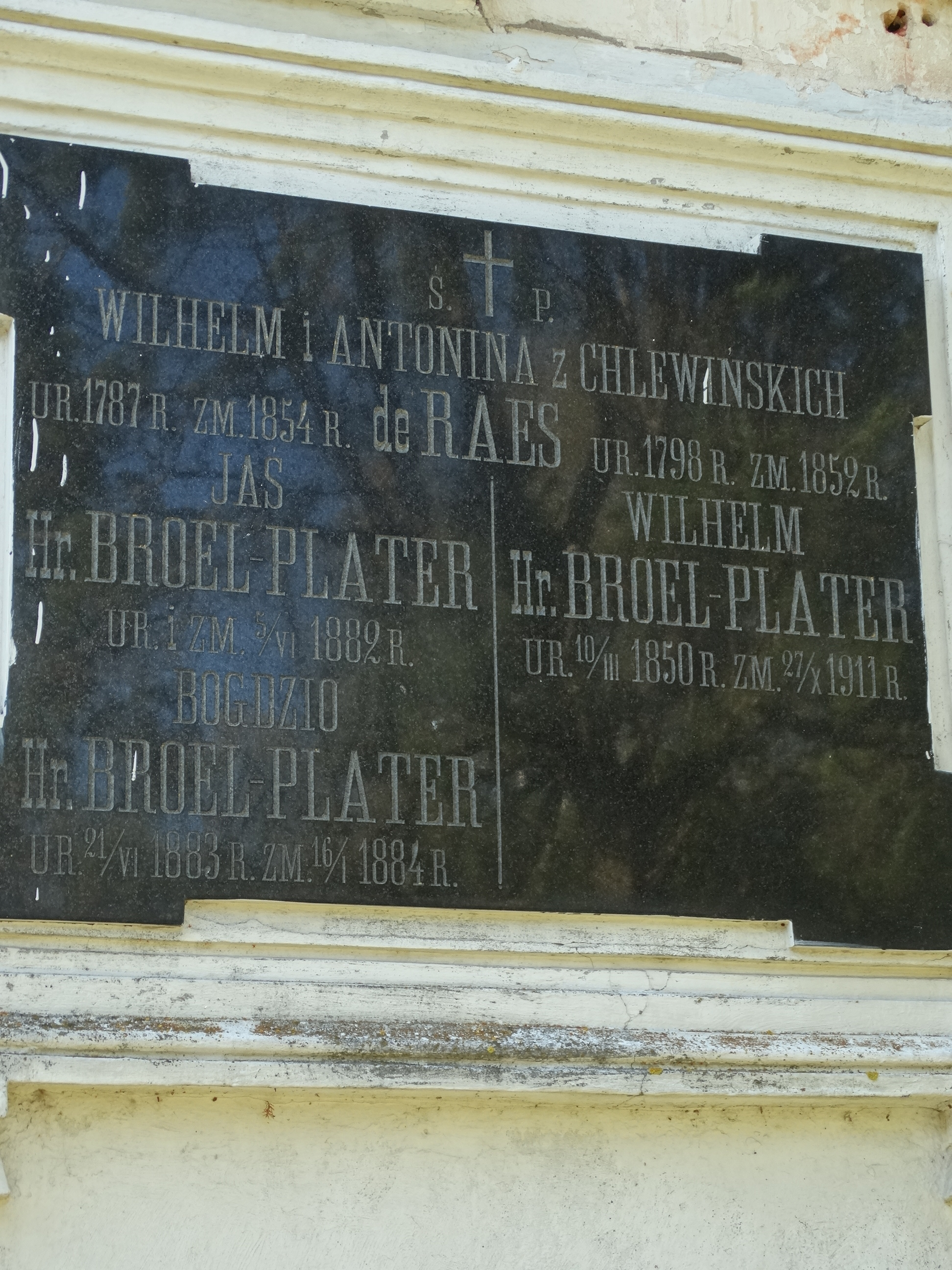 Memorial plaque to Broel-Platers, chapel in Sabališkės, Elektrėnai Municipality, Lithuania